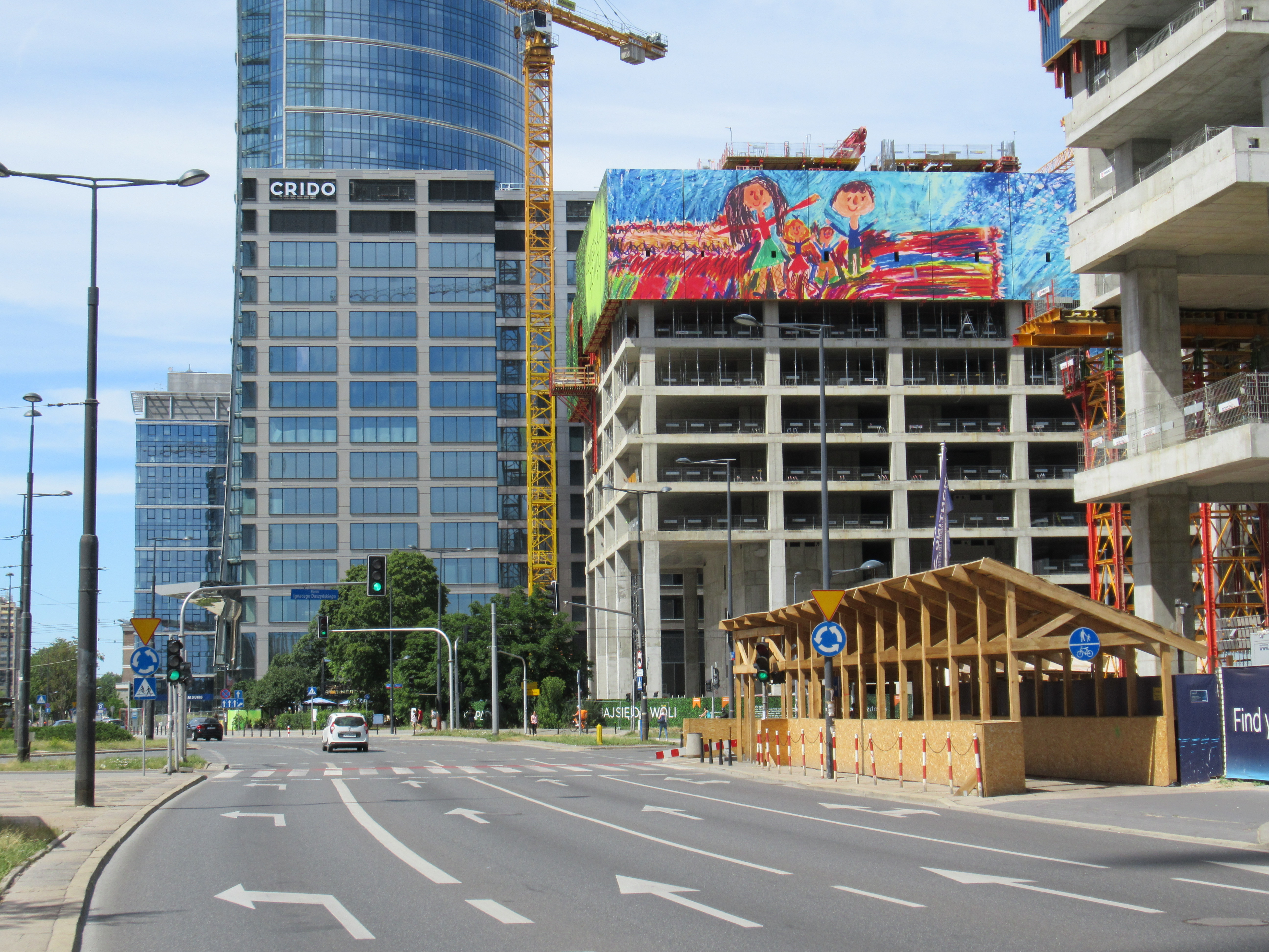 From the distance.